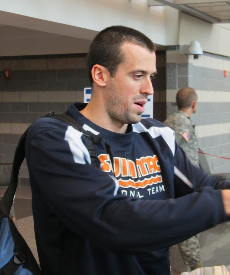 Davis Tarwater signing autographs at the U.S. Olympics Trials, June 30, 2012.